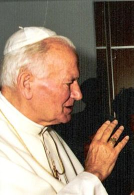 John Paul II, Pope, II visit to Brazil, at the local Vatican Apostolic Nunciature, Brasilia.